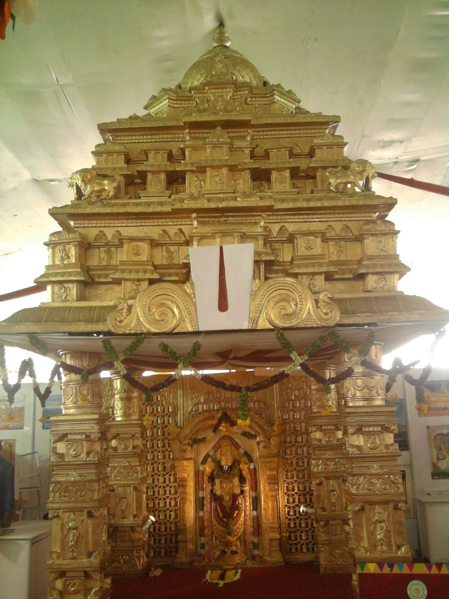 Model of Tirumala temple at fourth World Telugu Conference